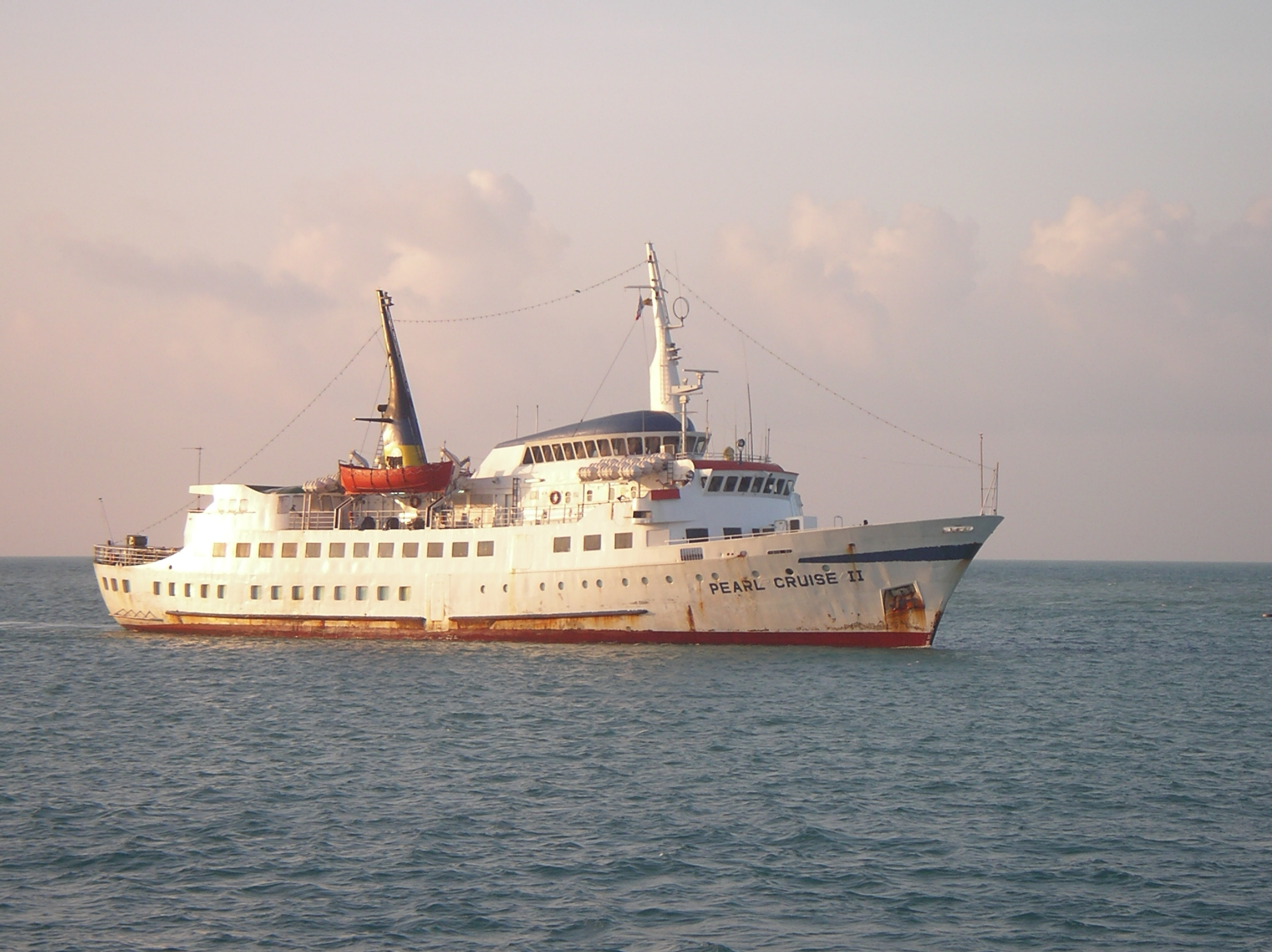 The Sri Lanka civilian vessel, MV Pearl Cruise II, chartered to the Sri Lankan Navy for troop transports, mainly between Trincomalee and Kankesanturai. Picture taken by myself in Kankesanturai.